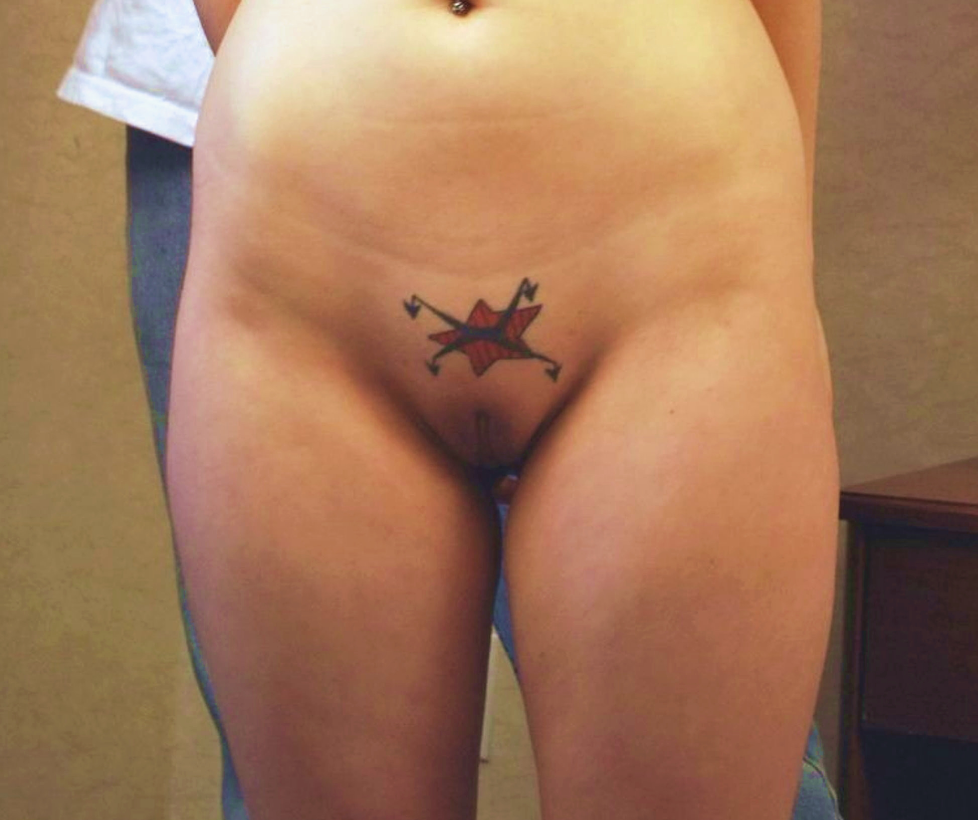 Tattoo in the groin area (for a woman)